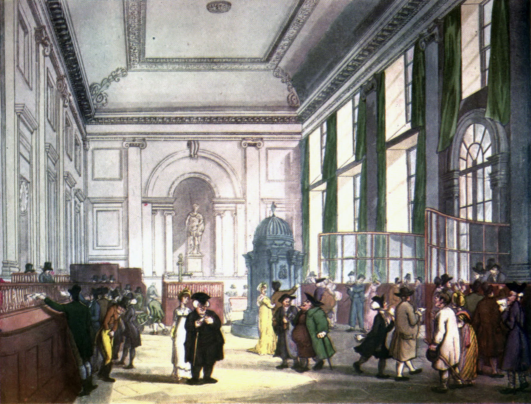 Bank of England